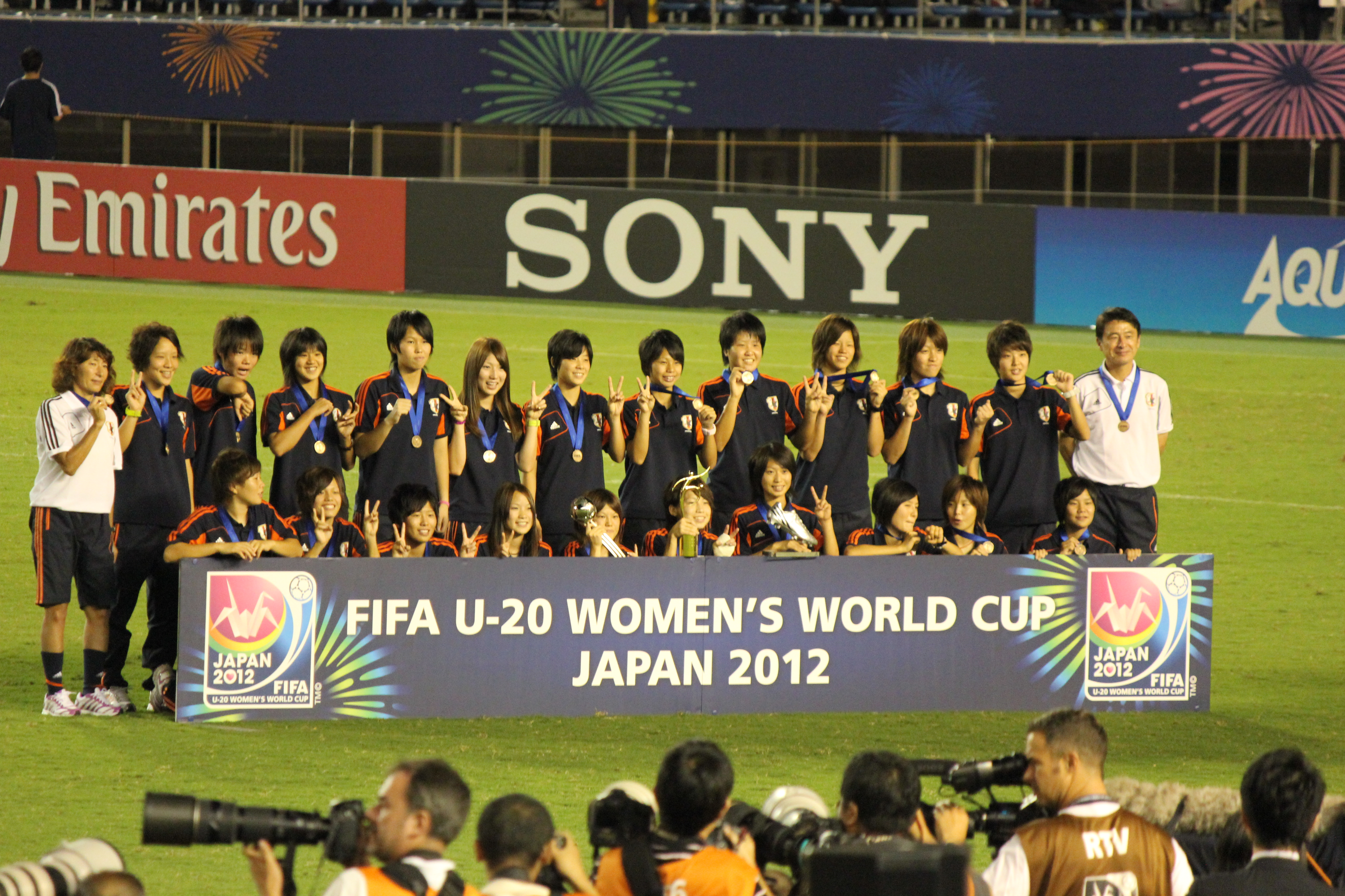 Japan national Team (FIFA U20 WIMEN'S WORLD CUP JAPAN 2012)